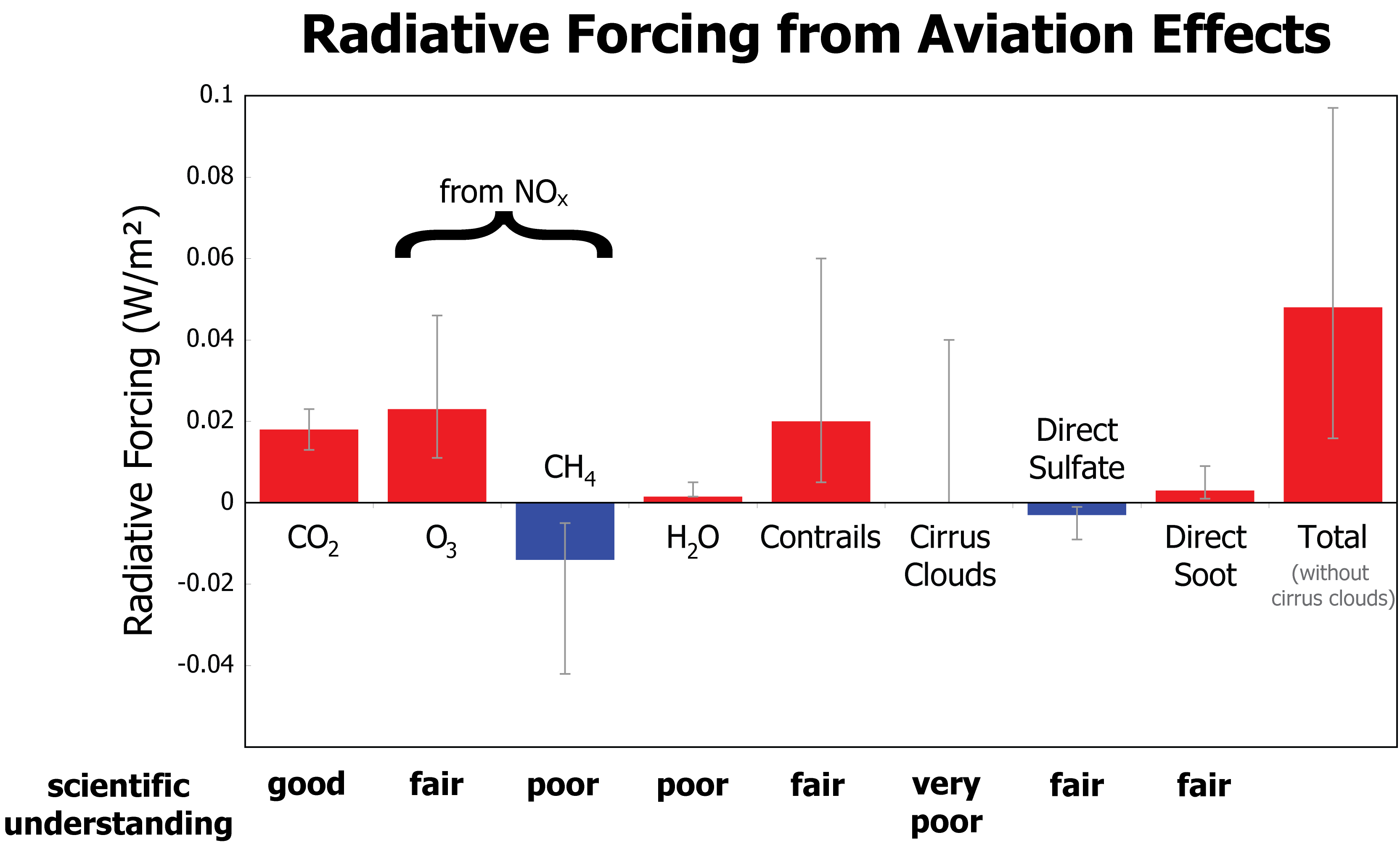 Bar charts of radiative forcing from aviation effects in 1992. Best estimates (bars) and high-low 67% probability intervals (whiskers) are given. No best estimate is shown for the cirrus clouds; rather, the line indicates a range of possible estimates. The evaluations below the graph are relative appraisals of the level of scientific understanding associated with each component.